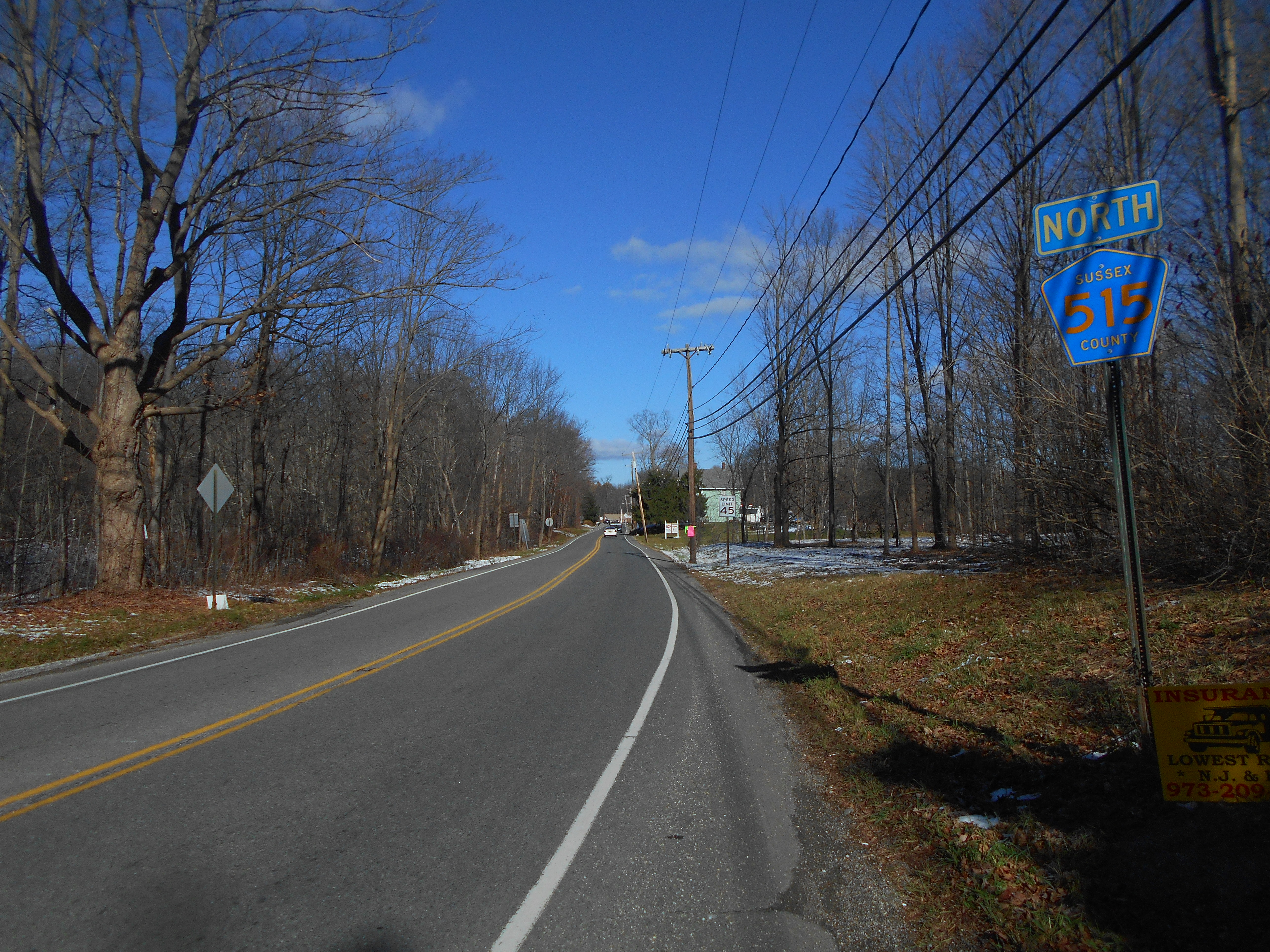 County Route 515 northbound in Stockholm, New Jersey north on New Jersey Route 23.